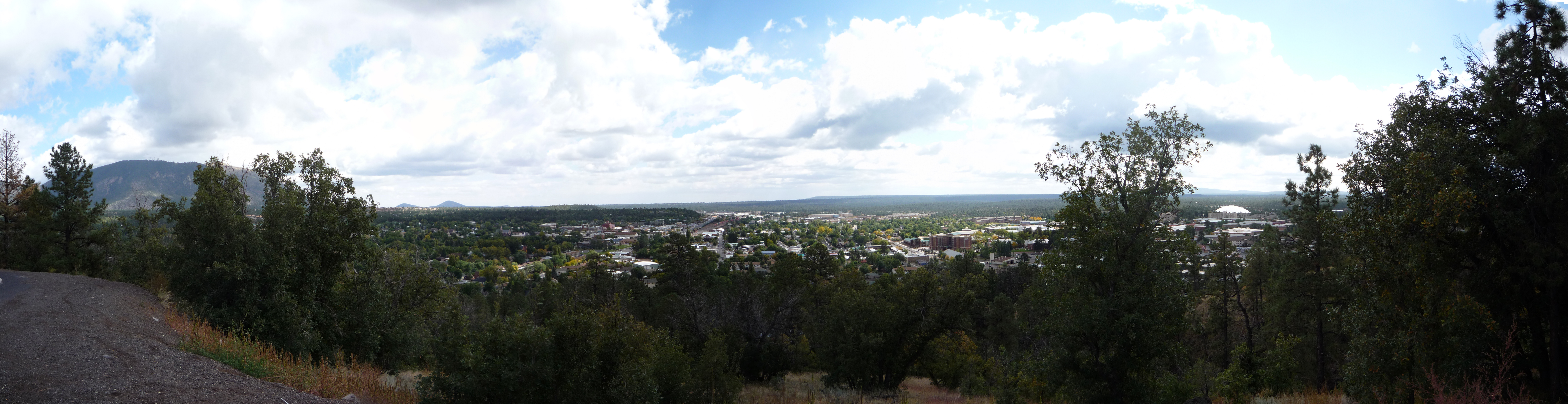 Panaorama created from 3 images in Adobe Photoshop CS3